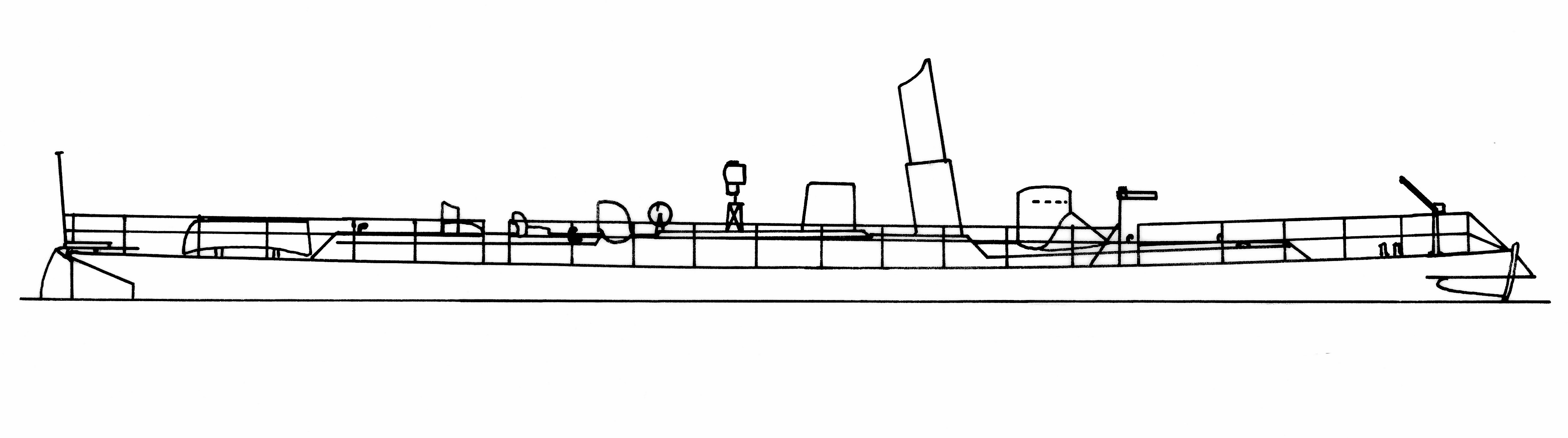 Drawing of the Danish torpedo boat Nr. 5., delivered 1880 and in 1882 named Søulven (Sea Wolf). Built by Forges & Chantiers de la Mediterraneé, Havre, and arrived with Danish Navy crew at Copenhagen on November 2, 1880. Attribution "Forsvarets Bibliotek" (Danish Defence Library), item "MAB-02947".